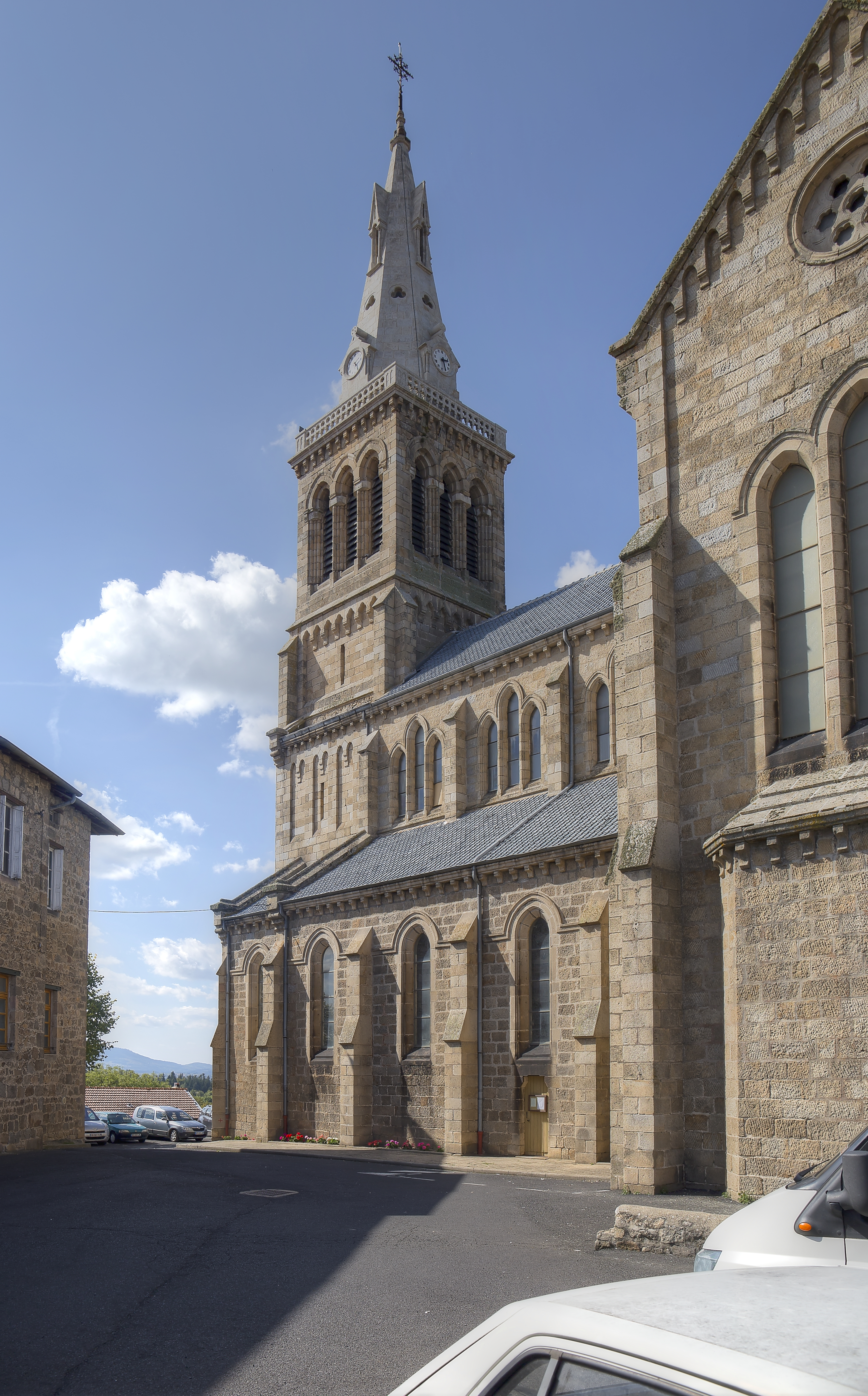 Église Saint-Jean, Lapte, Haute-Loire. View of the southern aisle. .